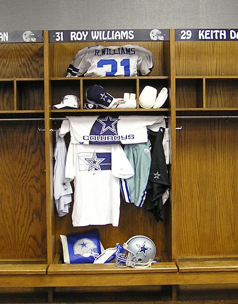 Dallas Cowboys Locker room (cropped from original)